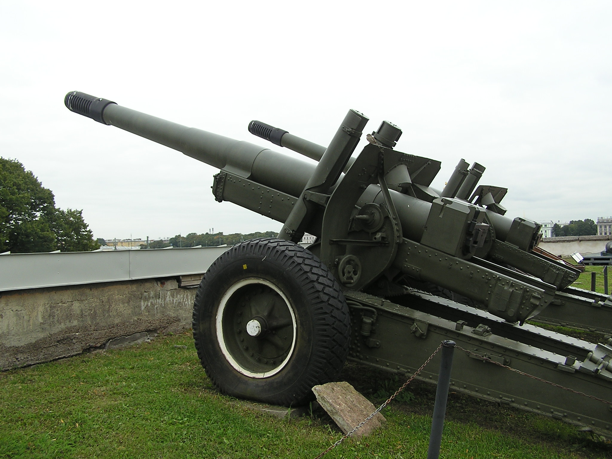 ML-20M gun-howitzer in the fortress of St.Petersburg. These artillery pieces served as noon signal canon until 2002.